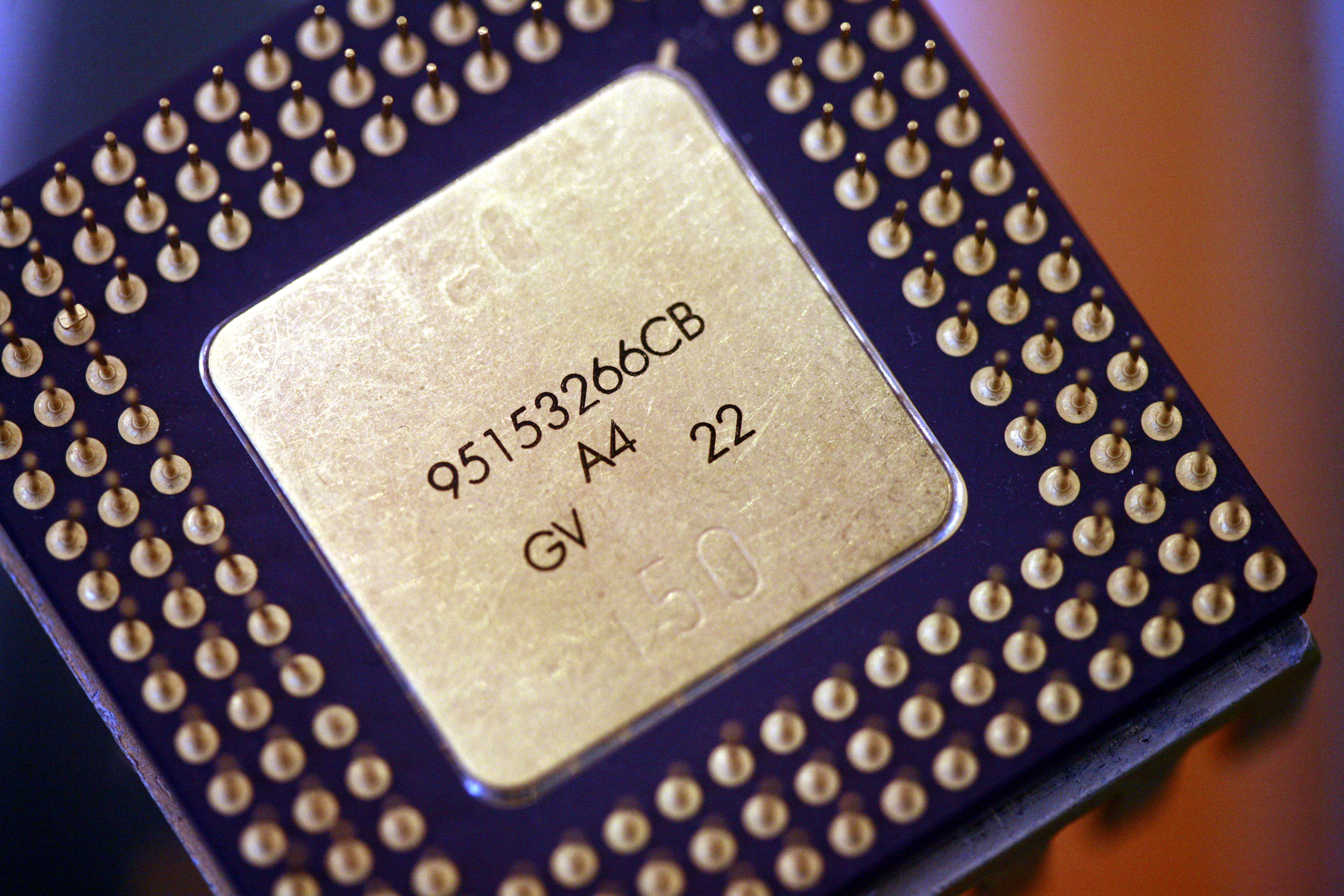 CPU